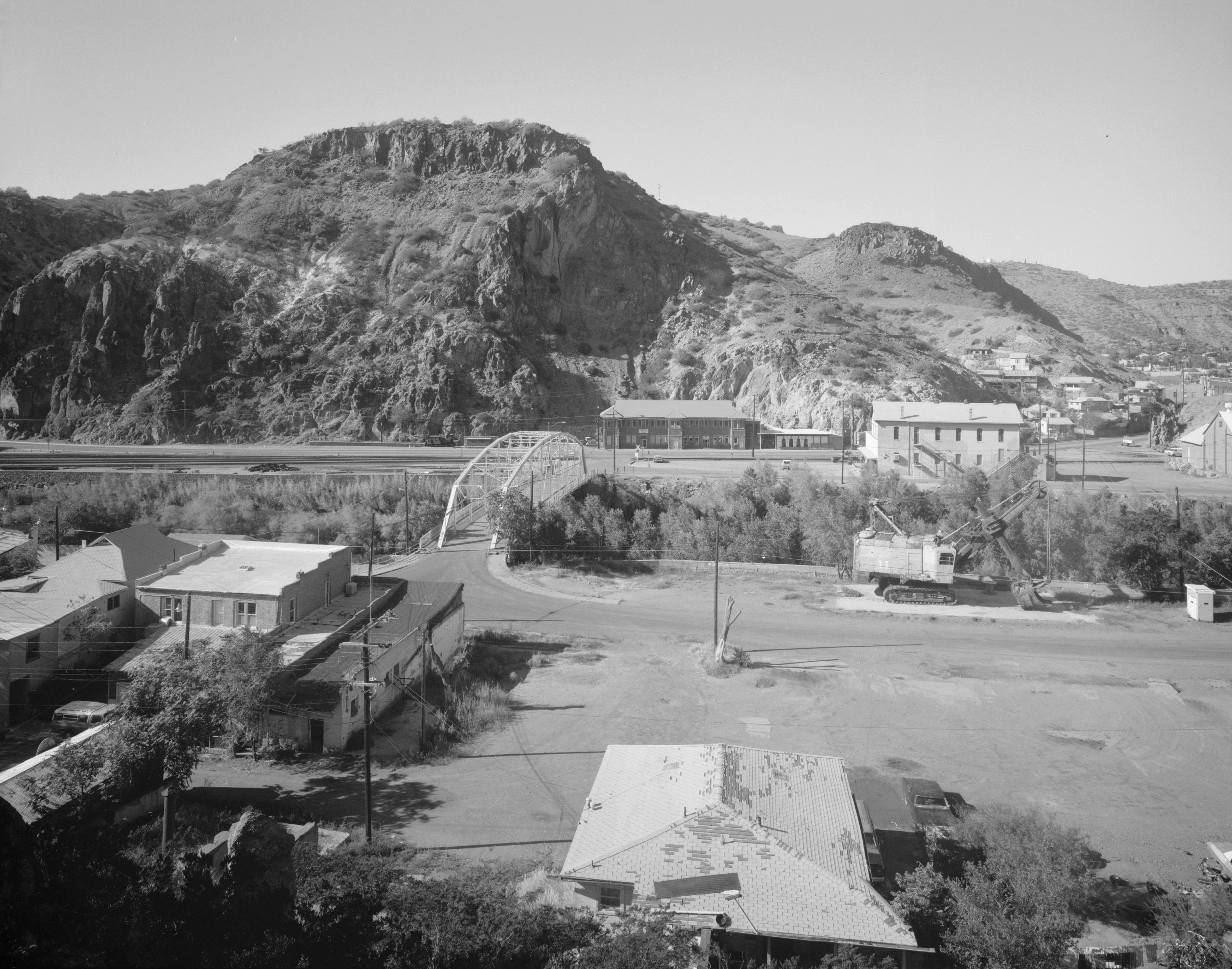 Buildings in the Clifton Townsite Historic District of the town of Clifton, located at the confluence of Chase Creek and the San Francisco River in Greenlee County, Arizona, United States. Visible in the middle of the picture is the Park Avenue Bridge. Both the district and the bridge are listed on the National Register of Historic Places.